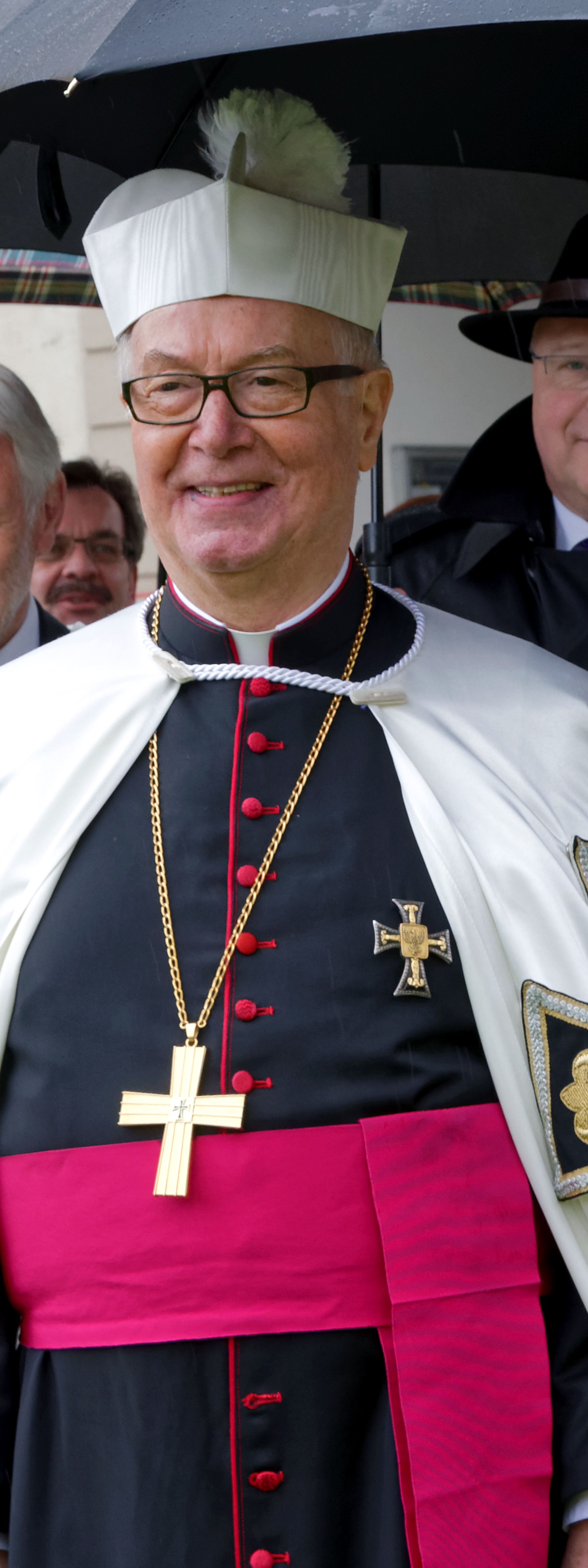 St. George`s days in the German knights Castle Bad Mergentheim.